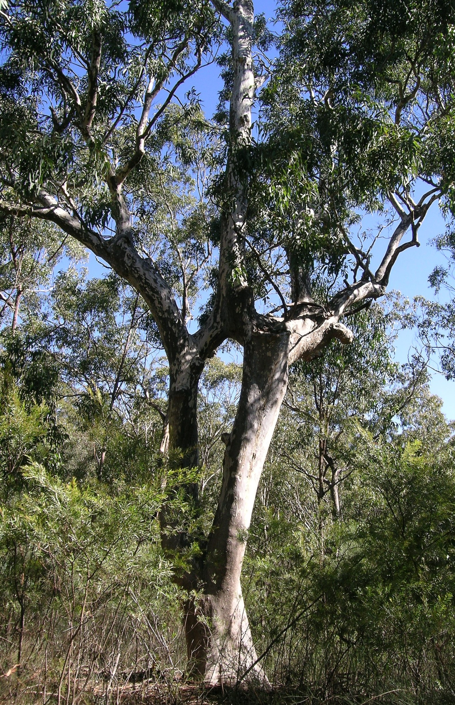 Unusual trunk formation on a Hillgrove Gum (Eucalyptus michaeliana), The Big Lease, OWRNP, Walcha, NSW, Australia. Aboriginals sometimes split and grafted tree trunks in this manner to indicate the boundaries of their territory.